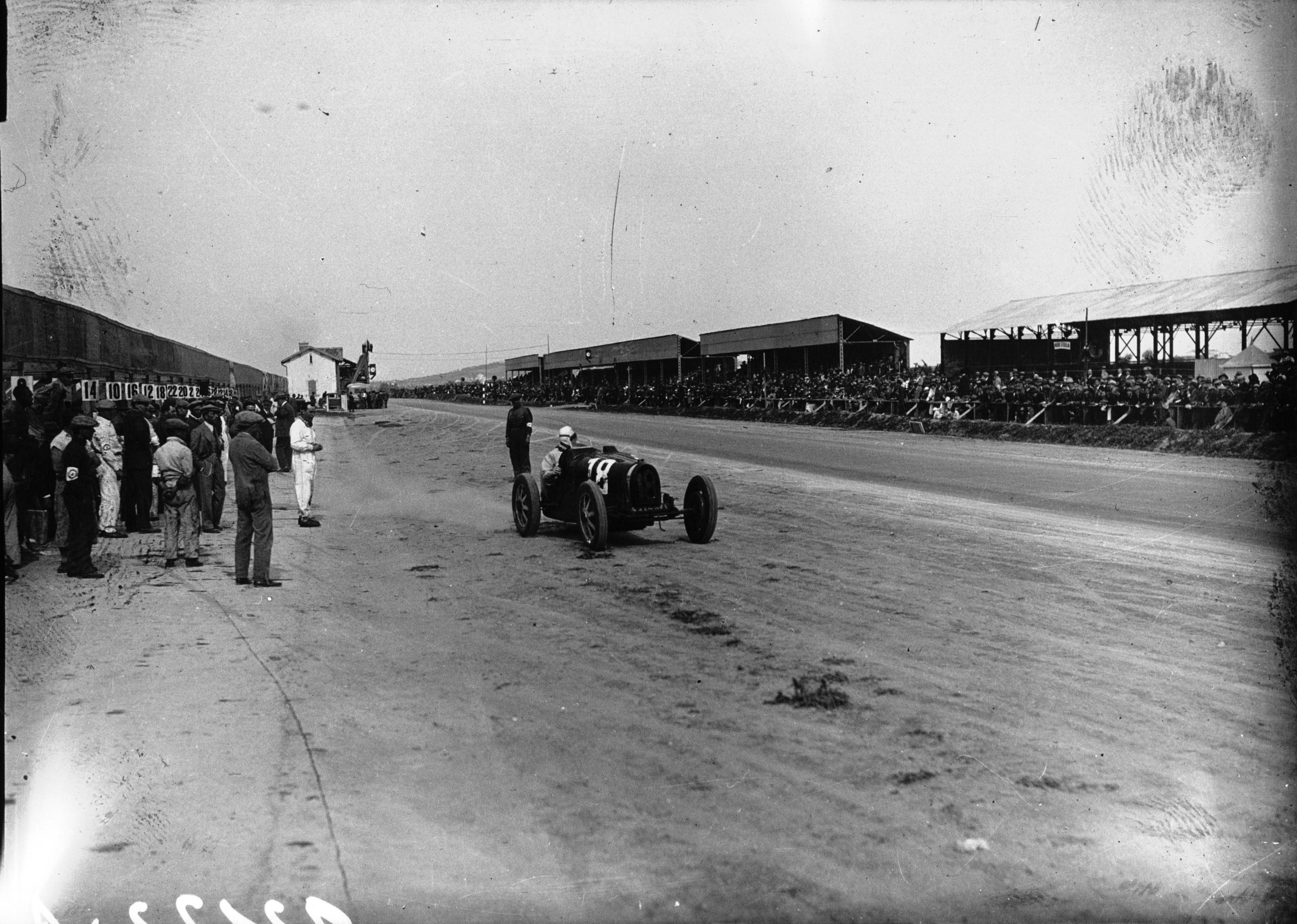 Achille Varzi at the 1932 Tunis Grand Prix